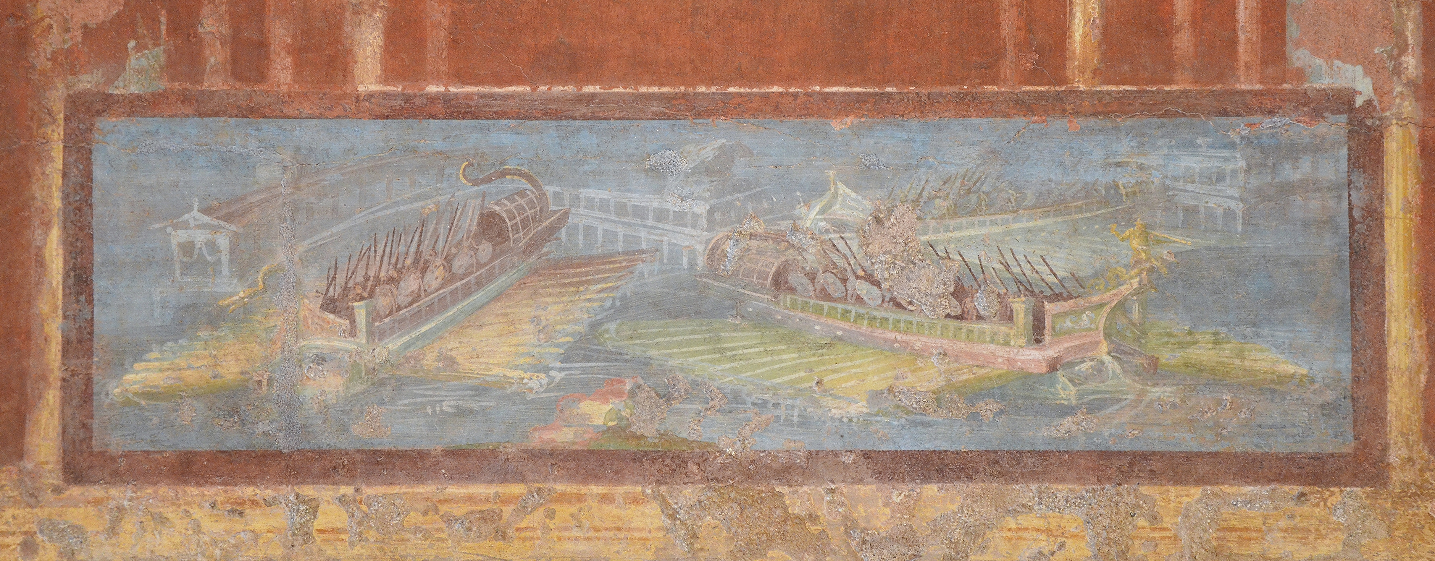 Fourth Style wall painting with naumachia (triremes), a detail from a panel from the portico of the Temple of Isis in Pompeii, Naples National Archaeological Museum